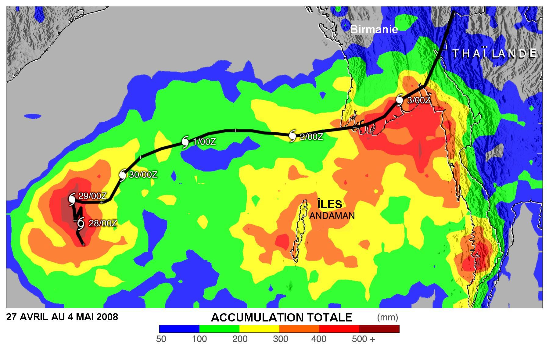 Estimate of rainfall with Cyclone Nargis 27 April to 4th of May 2008 according to TRMM weather satellite. Area covered of Bay of Bengal to Burma/Thailand coasts.